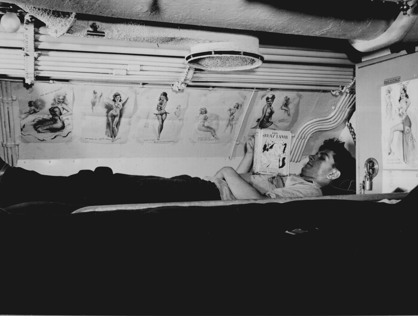 Sailor in his bunk aboard USS Capelin in WWII